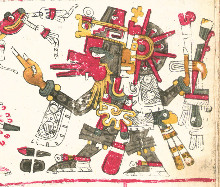 A drawing of Quetzalcoatl, one of the deities described in the Codex Borgia